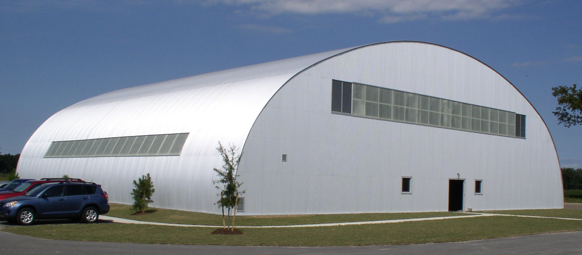 Restored original Luftwaffe hangar at the Military Aviation Museum